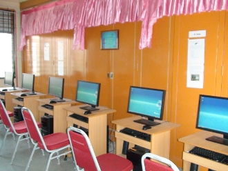 OSSLab